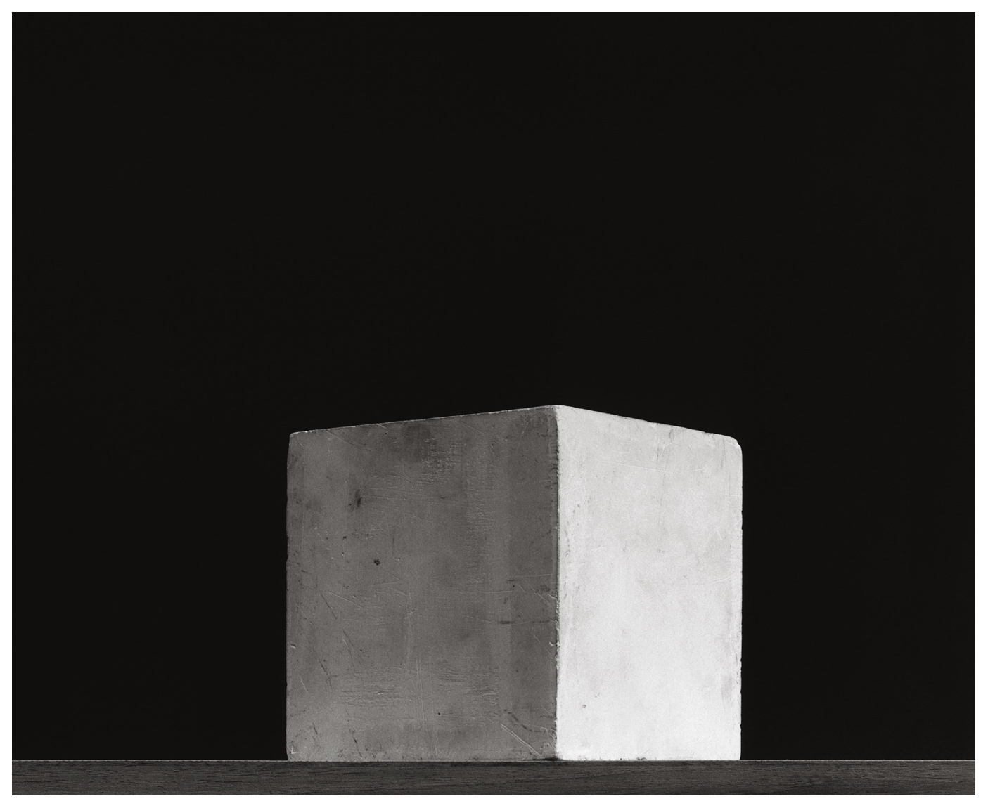 Gips 1